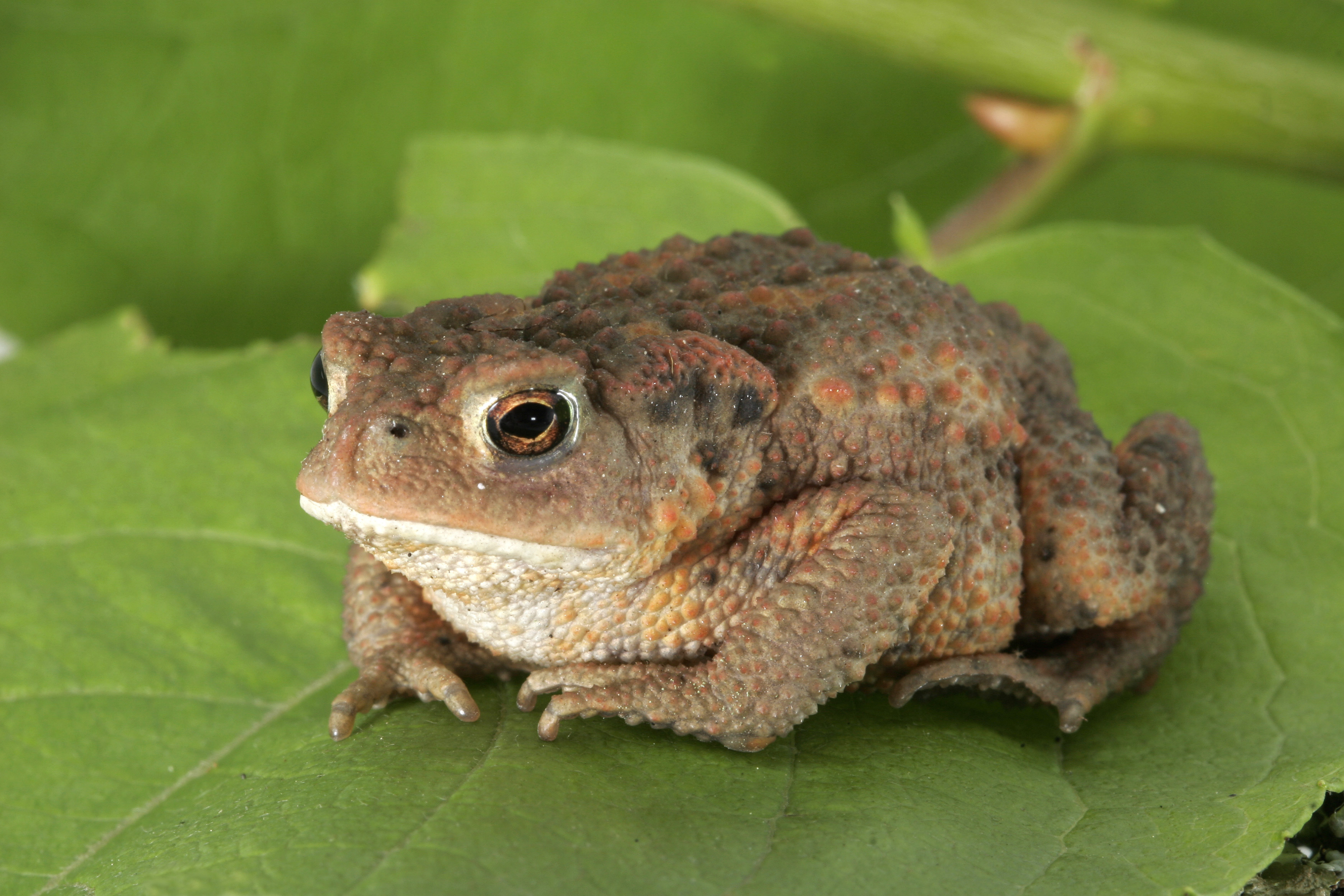 Common toad (Bufo bufo) in Bensheim (Germany). Picture cleaned from sensor dirt.